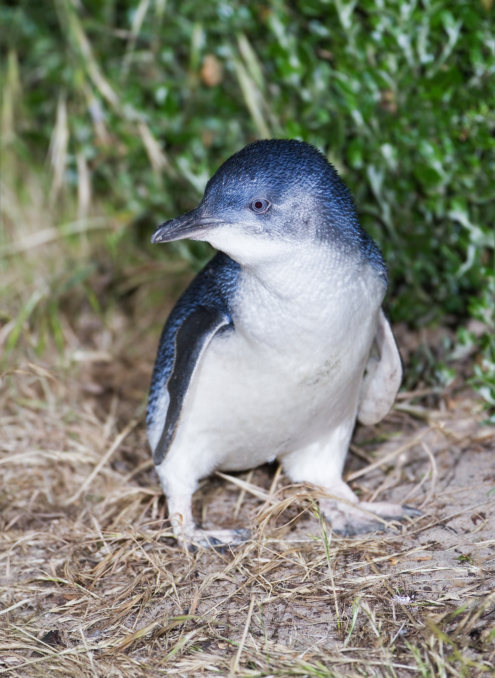 Little Penguin (Eudyptula minor), Bruny Island, Tasmania, Australia